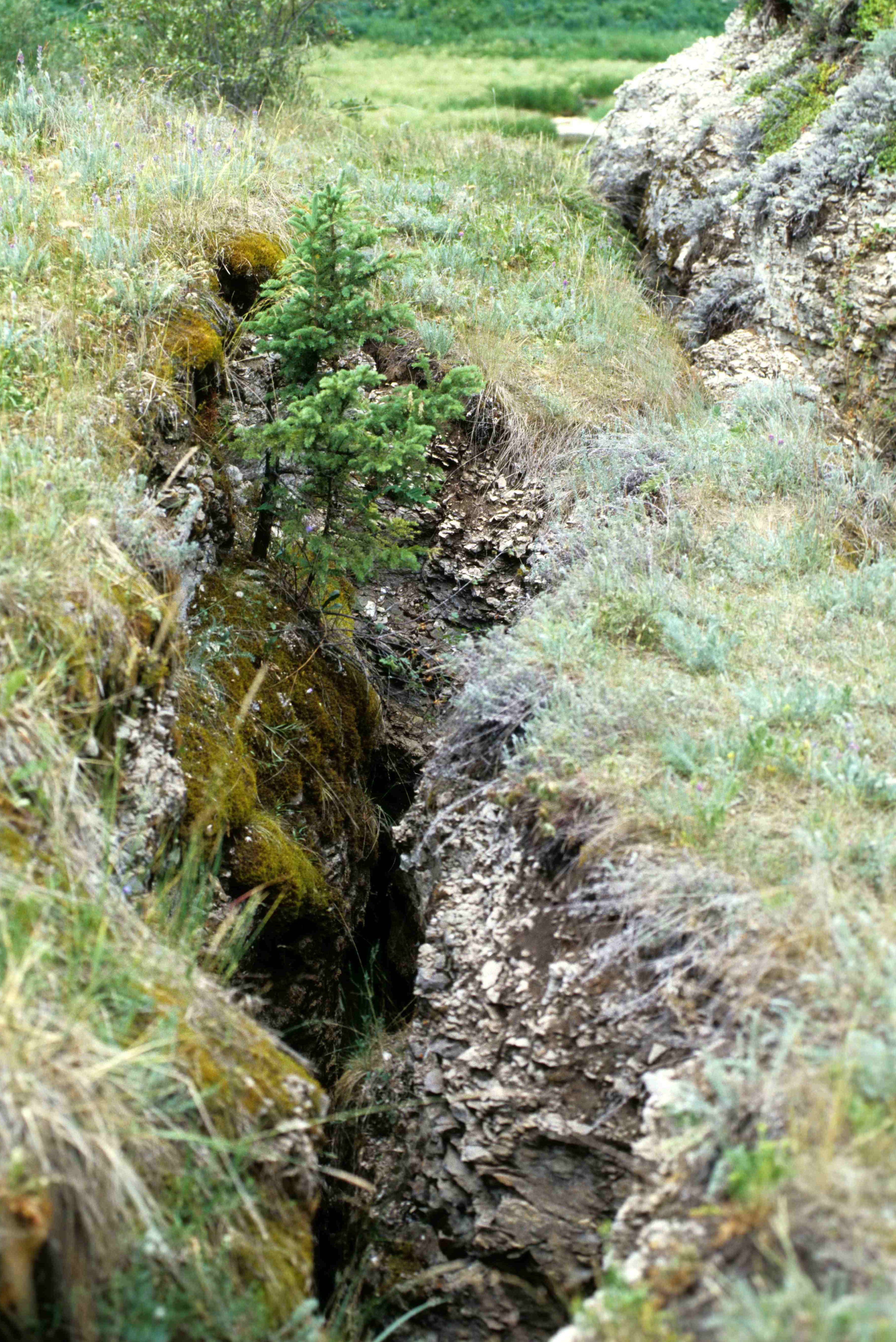 Sink hole, Wood Buffalo National Park, Alberta, Canada